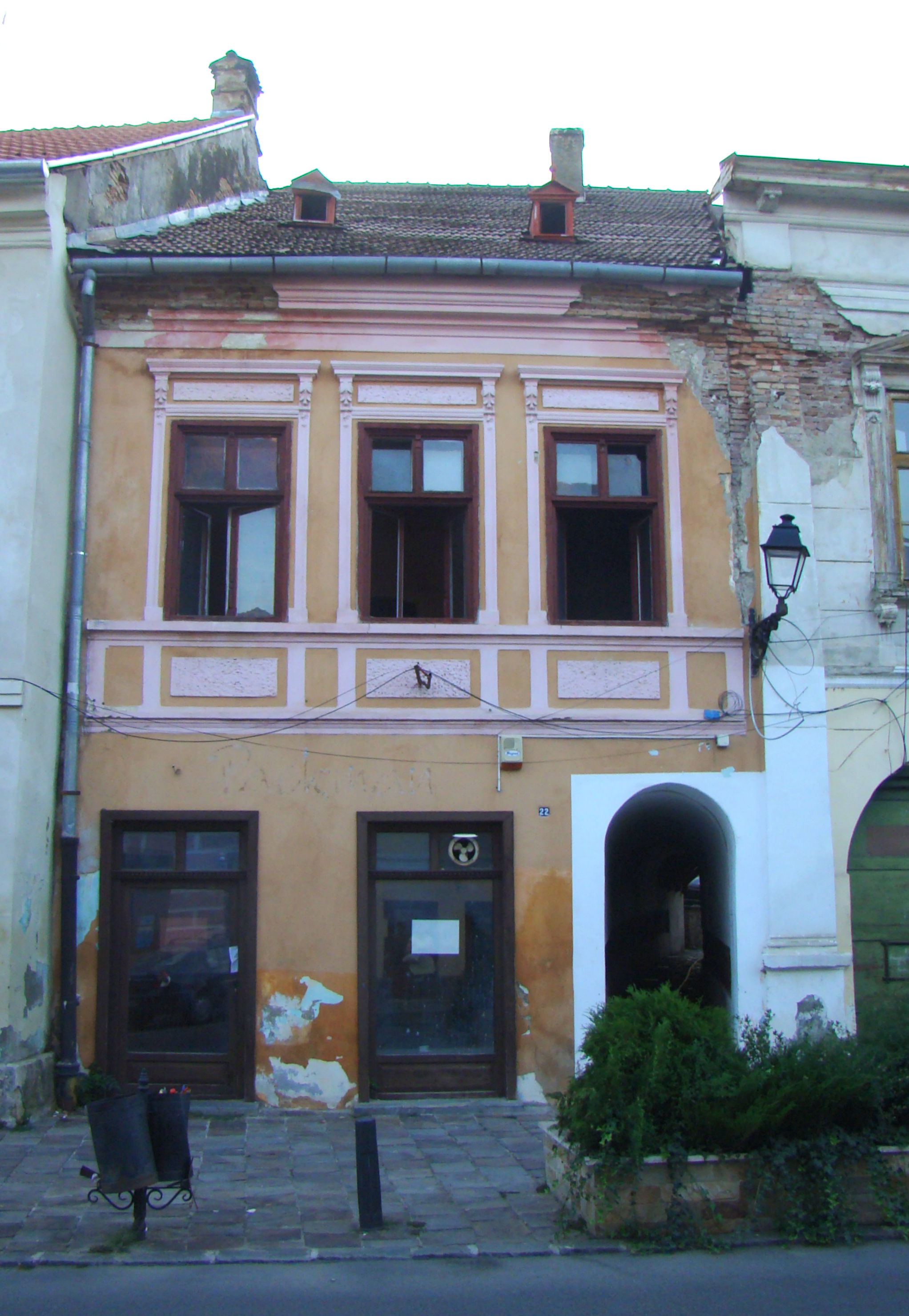 House, historic monument, in Bistrița, Nicolae Titulescu street 22